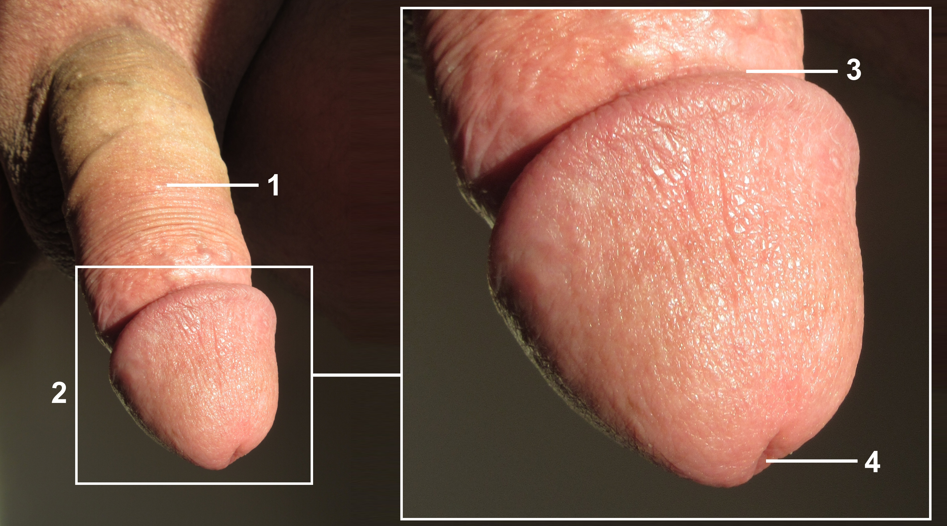 Ppenis of adult man: 1 Shaft of penis, 2 Glans penis, 3 Corona, 4 Meatus